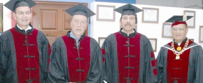 Recibiendo en Nicaragua un Doctorado Honoris Causa por los acuerdos de la firma de paz